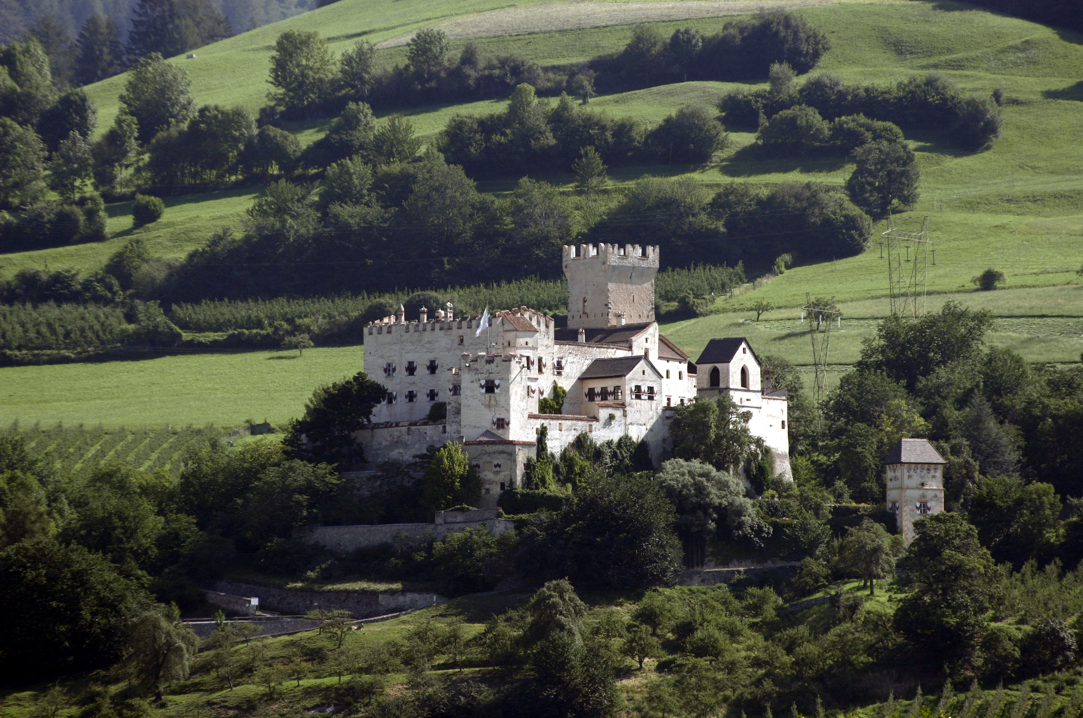 Churburg of Schluderns (South Tirol)